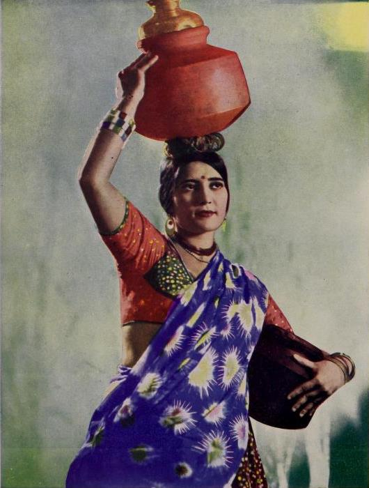 Padmadevi in Kisan Kanya India's First All Colour Talkie Produced by Imperial Film Co.